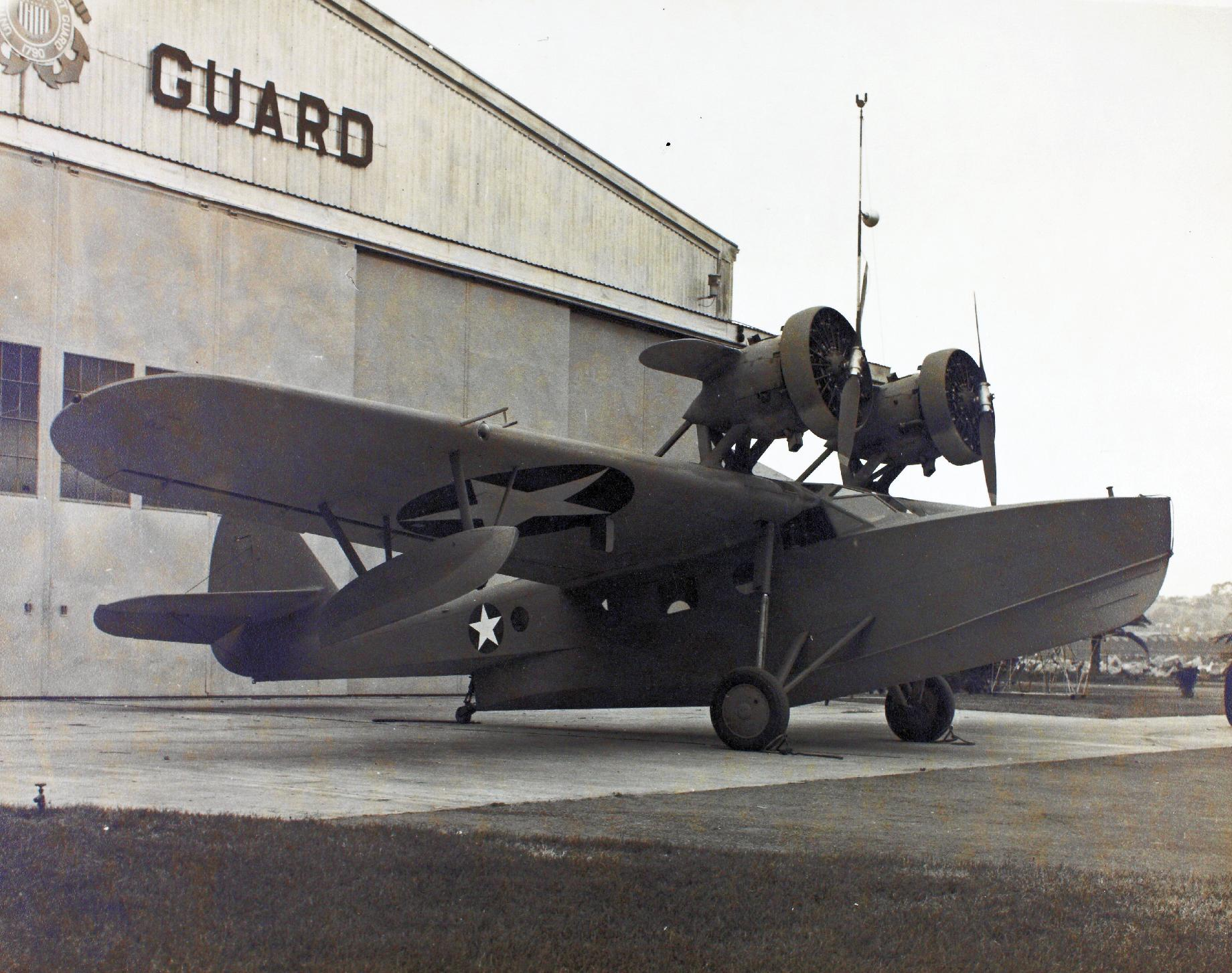 Douglas RD-4 "Dolphin" of the United States Coast Guard, circa 1942.